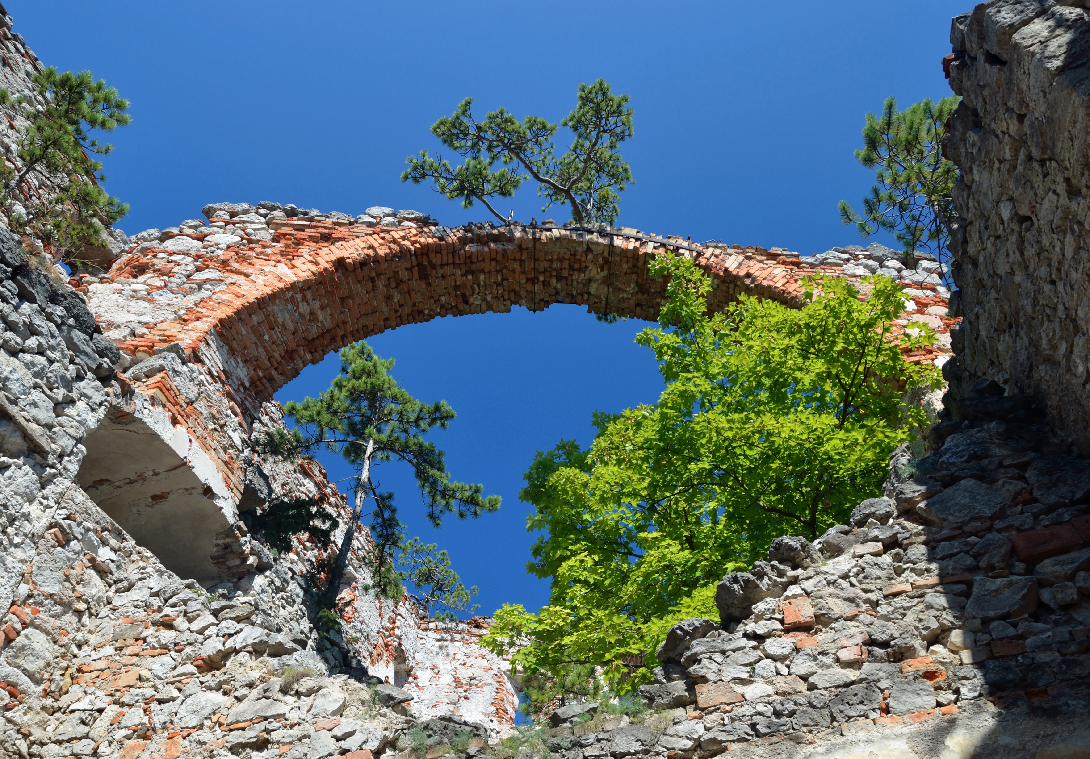 The ruins and the palace of Merkenstein at Gainfarn, municipality of Bad Vöslau, Lower Austria, are protected as a cultural heritage monument.